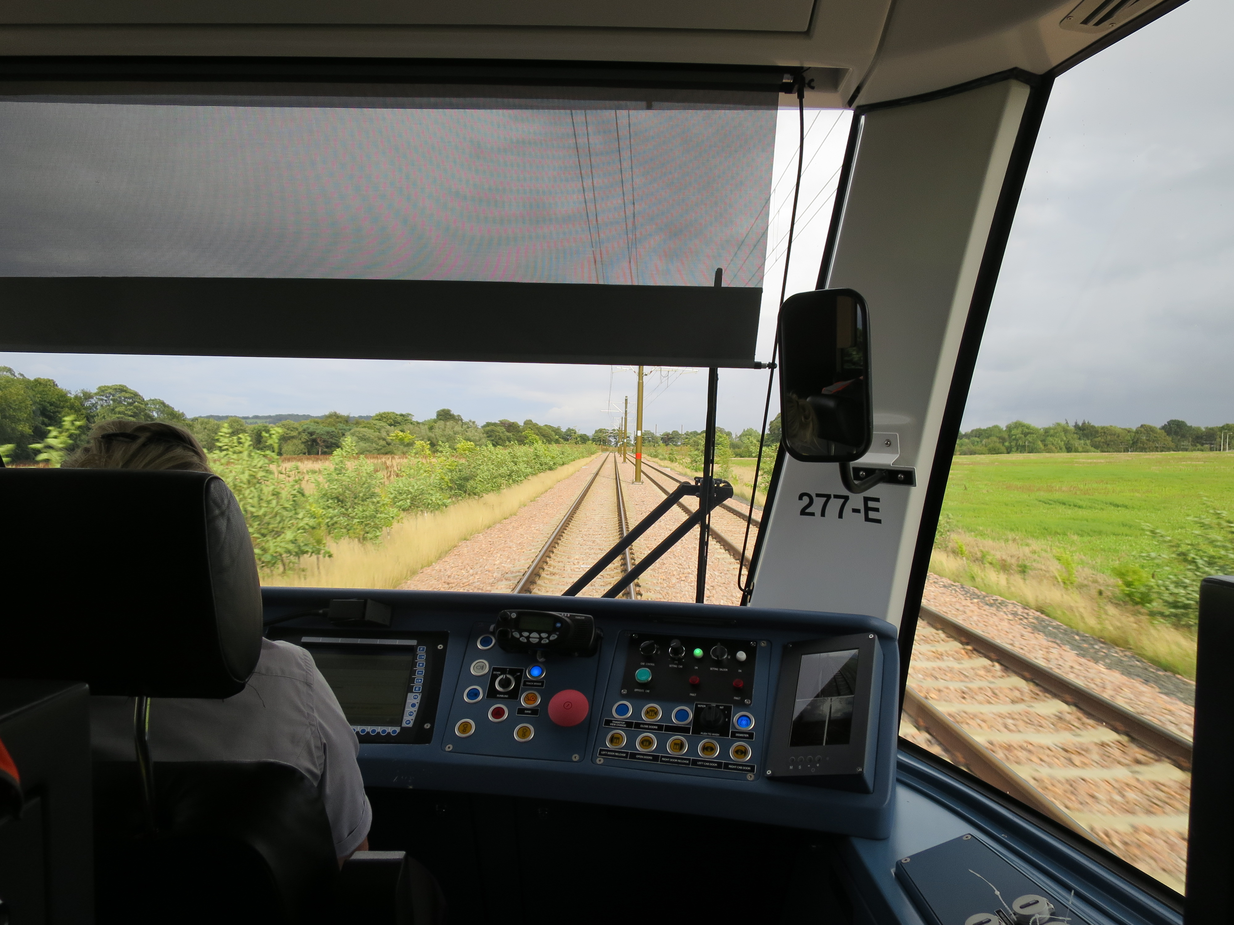 Driver's view from an eastbound Edinburgh Tram travelling from the Airport to the city. This is the long straight in the rural section, between the stops at Ingleston Park & Ride and Gogarburn.